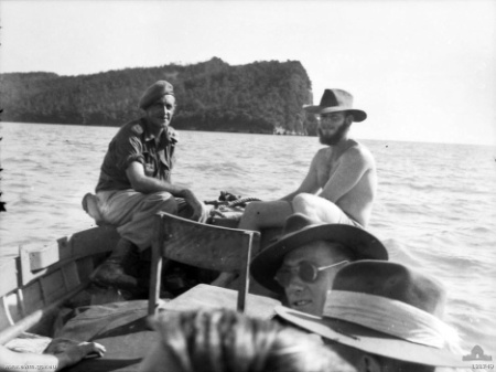 Australian War Memorial photo 121749 showing Berhala Island in the background. Caption ID Number: 121749 Maker: Burke, Frank Albert Charles Physical description: Black & white Summary: BERHALA ISLAND, NORTH BORNEO 1945-10-23. A SMALL PARTY CONSISTING OF VX108088 CAPTAIN L. G. DARLING, PRISONER OF WAR LIAISON OFFICER 9TH DIVISION; SQUADRON LEADER BIRCHALL RAAF; CAPTAIN HOUGHTON, WAR GRAVES; AND CAPTAIN MCLAREN MC, SERVICES RECONNAISSANCE DEPARTMENT (SRD), VISITED BERHALA ISLAND IN SANDAKAN HARBOUR. THIS ISLAND, THE SITE OF THE FORMER BRITISH QUARANTINE STATION AND LEPER COLONY, WAS USED BY THE JAPANESE TO HOUSE ALLIED PRISONERS OF WAR AND INTERNEES. QX21058 PRIVATE R. K. MCLAREN, 2/10TH FIELD WORKSHOPS, LATER CAPTAIN "Z" SPECIAL FORCE, WAS CAPTURED IN SINGAPORE IN 1942. HE ARRIVED AT BERHALA ISLAND ON 1943-04-26 AND ESCAPED FROM THERE ON 1943-06-04, THE EVENING BEFORE THE JAPANESE MOVED THE PRISONERS TO THE SANDAKAN PRISONER OF WAR CAMP. HE WENT TO TAWITAWI WHERE HE AND HIS FELLOW ESCAPEES JOINED THE GUERRILLA MOVEMENT. CAPTAIN MCLAREN IS SEATED IN THE BOW OF A LAUNCH AS IT APPROACHES BERHALA ISLAND.